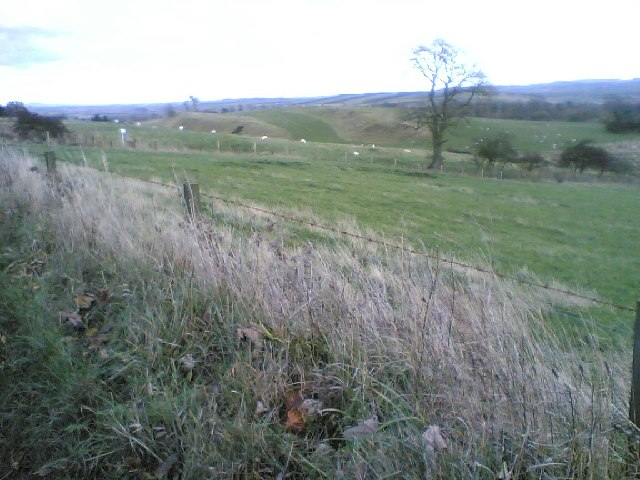 Ballingry. Fields on the south side of Benarty Hill. Kildownies Hill near the Ladath Stripe background.